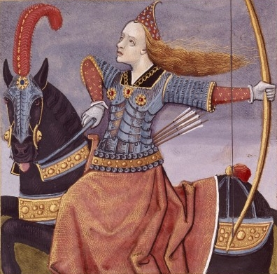 Penthesilea, Amazonian queen